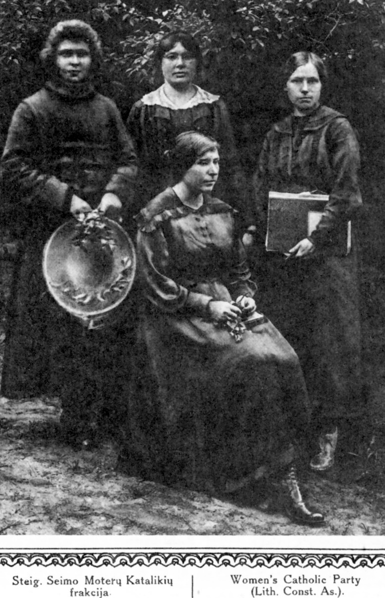 Womens, members of Constituent Assembly of LithuaniaLietuvių: Lietuvos Steigiamojo Seimo atstovės moterys katalikės